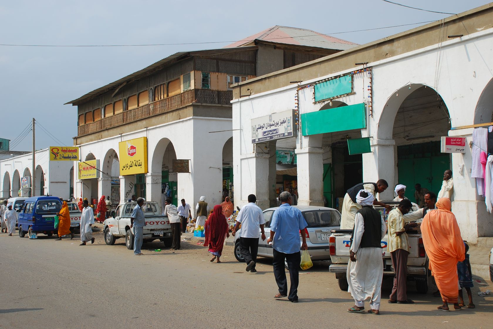 Port Sudan, colonial market street